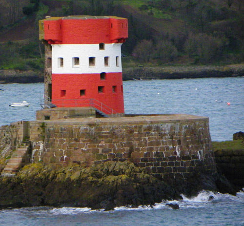 Archirondel Martello Tower, used for navigational aid.